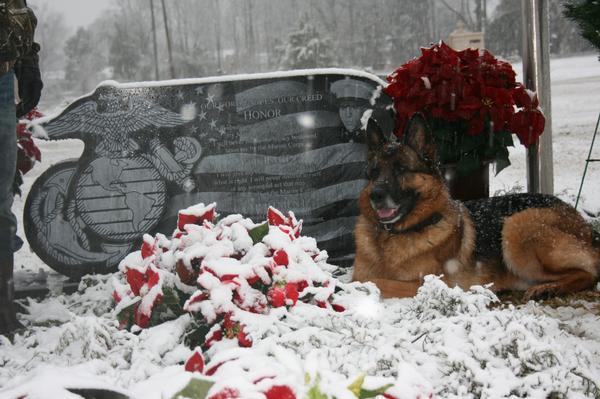 Retired Marine K9 Lex at Graveside of his handler, Marine Cpl. Dustin Jerome Lee